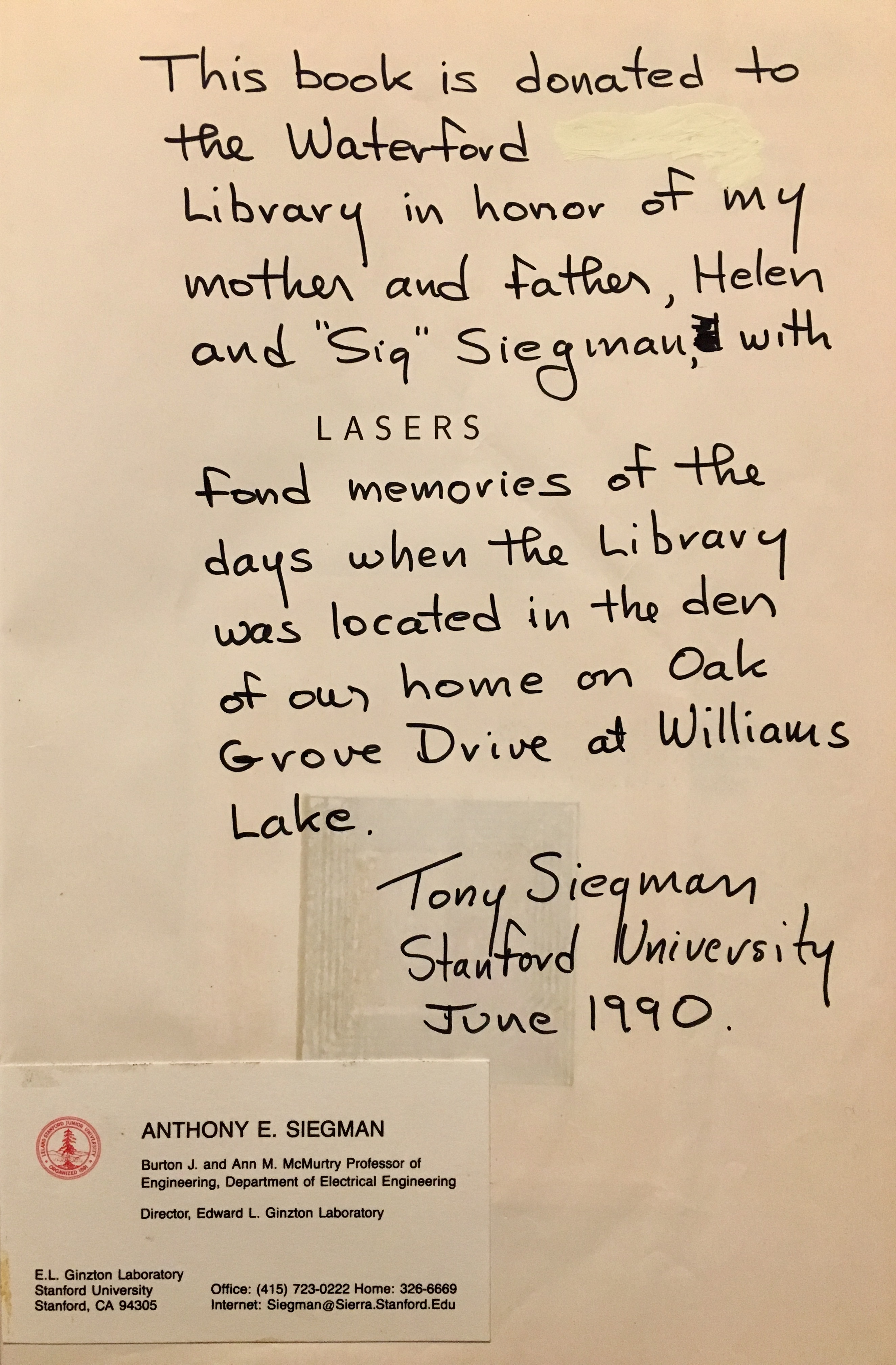 Title page of the donated copy of Siegmans' book, LASERS (1986) to the Waterford Michigan Library